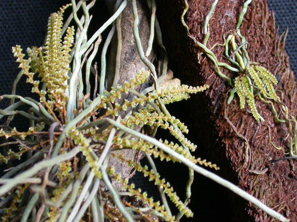 Campylocentrum burchellii (left) and C. grisebachii (right). They are currently considered variations of the same. Both are native of São Paulo State. This photo was taken side by site so the differences of size can be noticed. The flowers are vey similar despite one is twice bigger than the other.